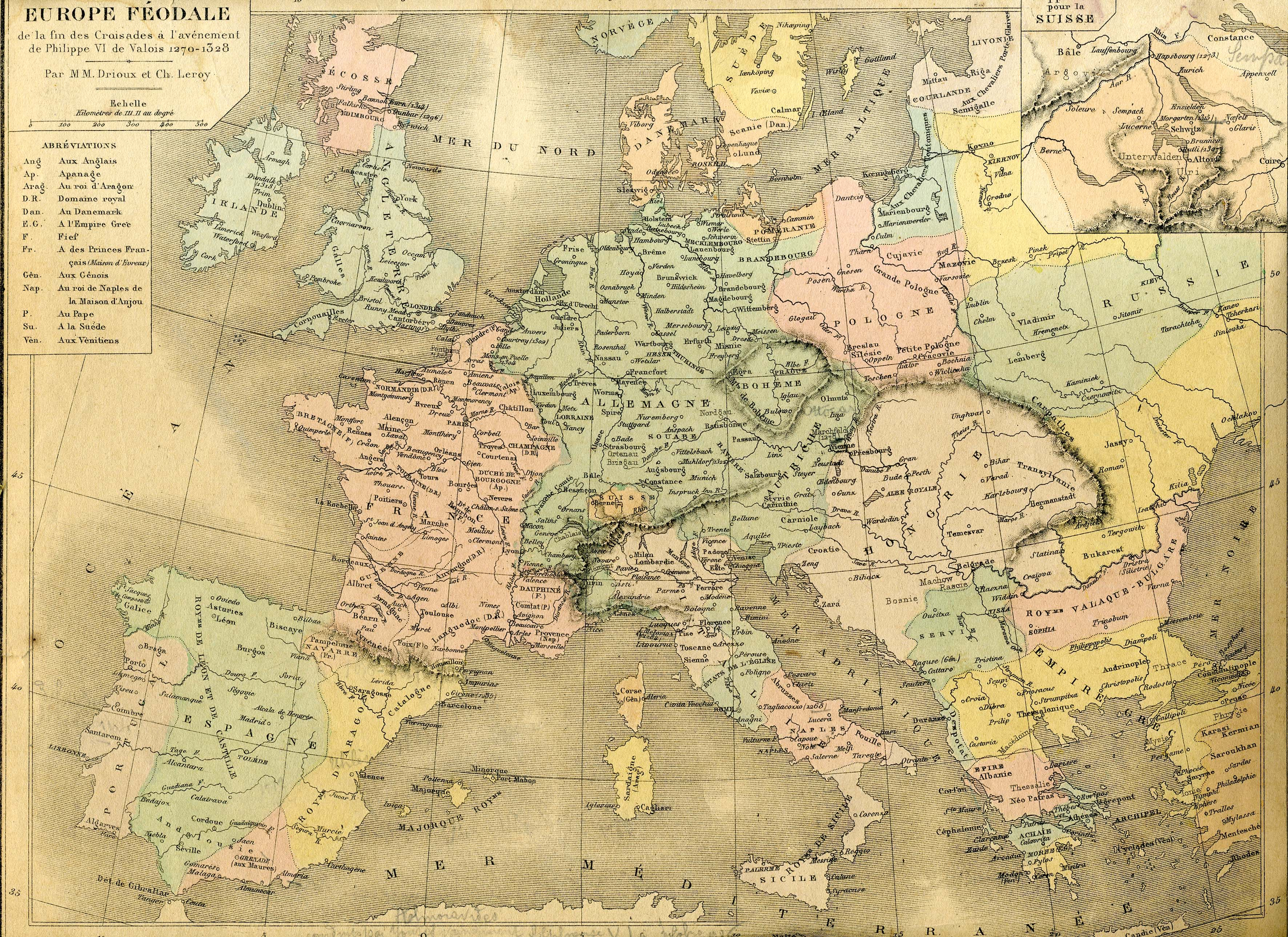 Anonymous old map (1885) of Europe at the Middle-Ages (XI, XII-th cen.), in French